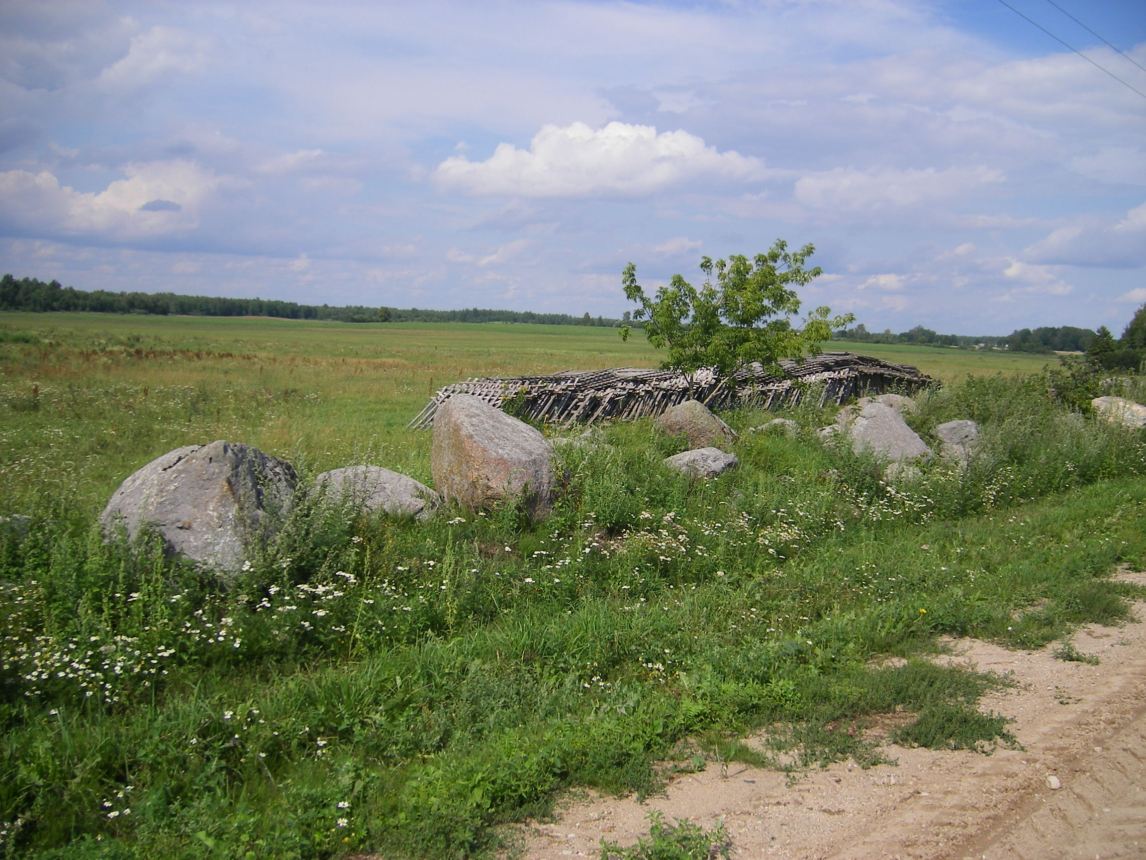 Glacier stones near Podruksha, Braslav Raion